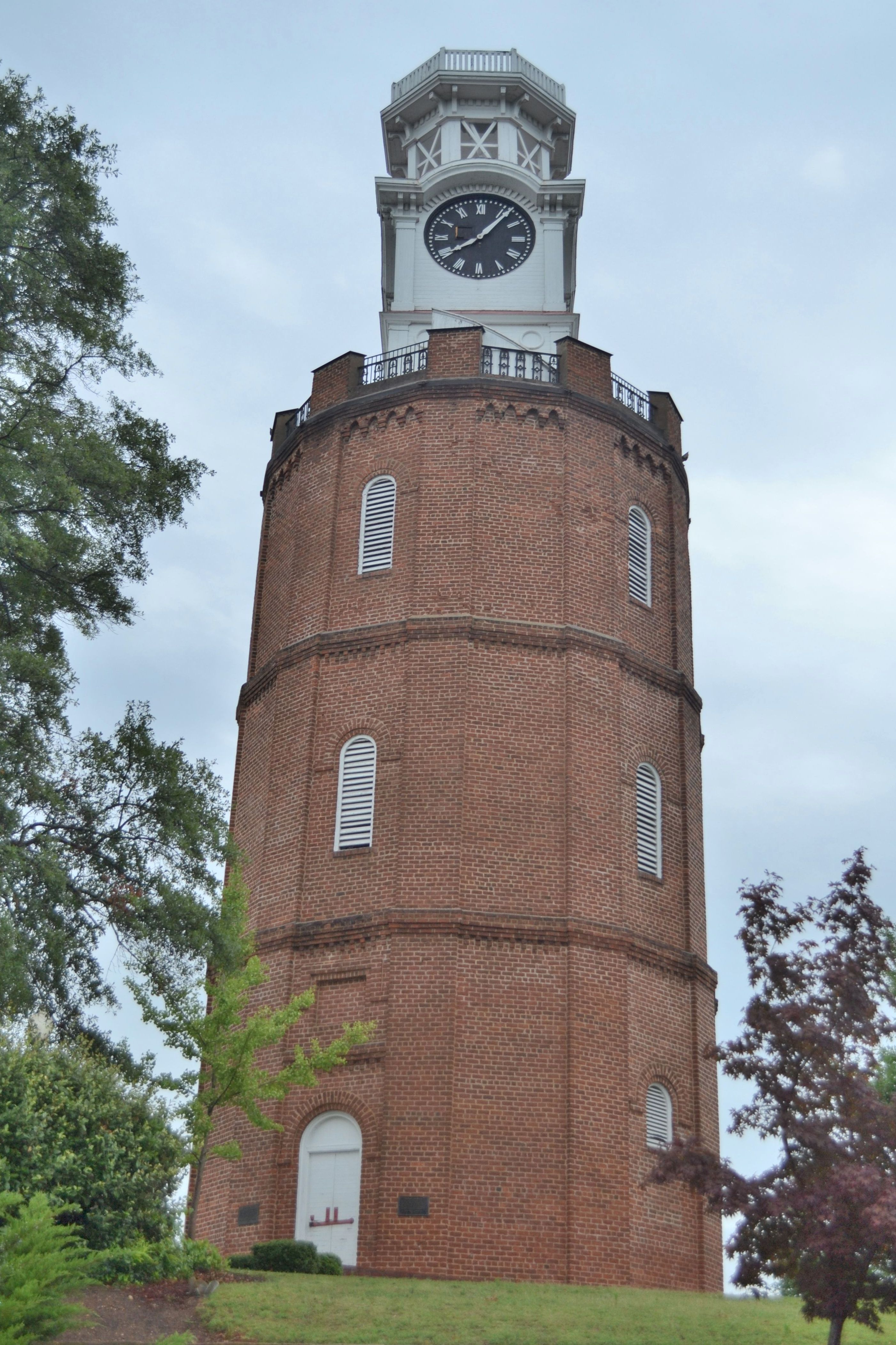 Rome Clock Tower